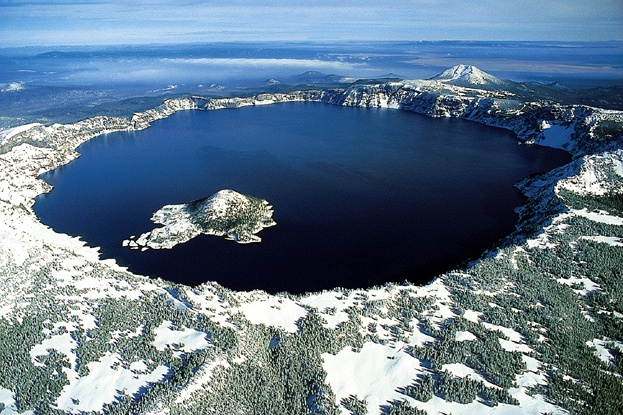 Crater Lake is a caldera lake in the south of U.S. state of Oregon. It is the main feature of Crater Lake National Park and famous for its deep blue color and water clarity. With a maximum depth of almost 1950 feet (594 m) the lake partly fills a nearly 4,000 feet (1,220 m) deep caldera that was formed around 2000 (± 150) BC by the collapse of the volcano Mount Mazama.